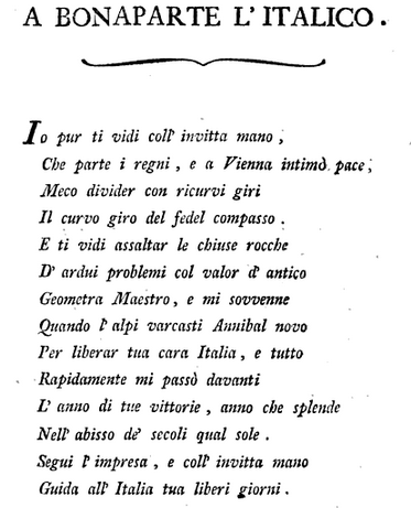 Dedication to Napoleon Bonaparte of his book La geometria del compasso (1797)